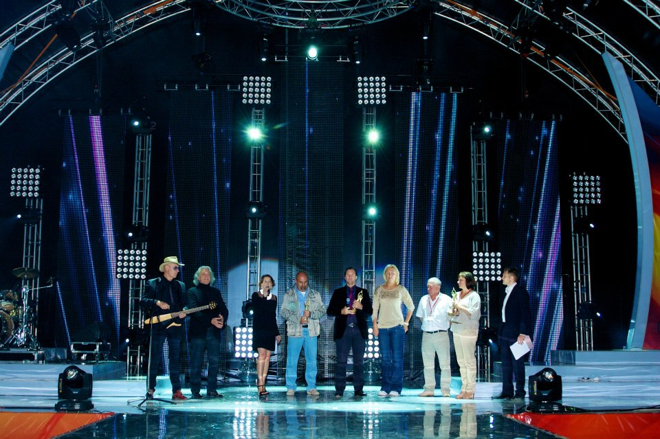 Main stage of the festival Sport by the Whole Wide World on Sept. 15, 2012 in Taganrog